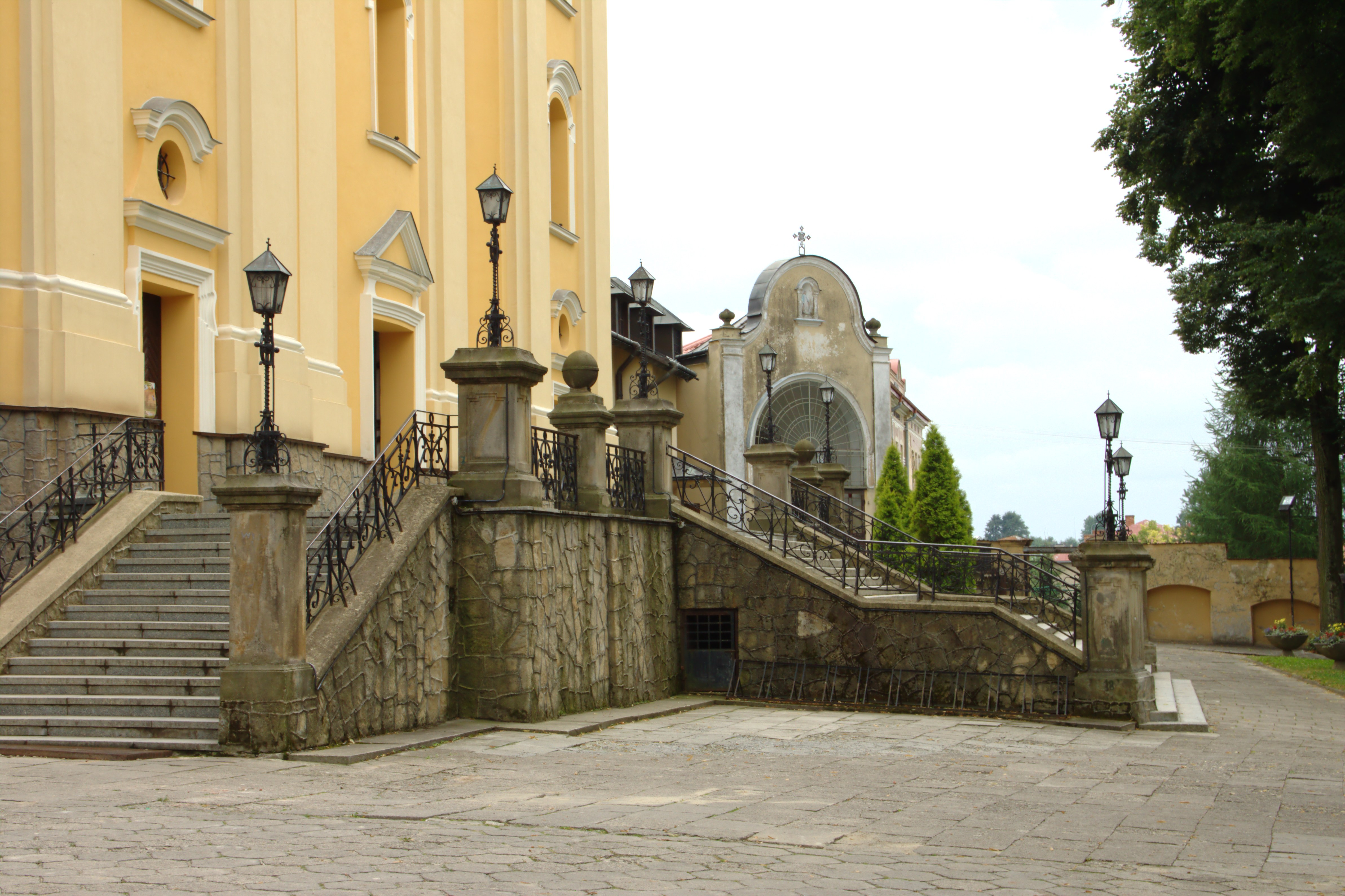 Basilica in Stara Wieś, Subcarpatian voivodeship This photo of Subcarpathian Voivodeship was taken during Wikiekspedycja 2011 set up by Wikimedia Polska Association.You can see all photographs in category Wikiekspedycja 2011. The making of this document was supported by Wikimedia Polska.